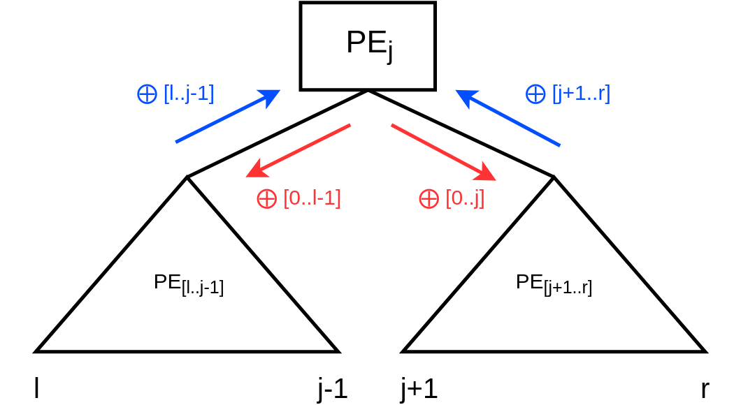 The graph represents the subtree local prefix sums of the left and right subtree of a processing element (PE) which are passed to higher level PEs during the upward phase and the partial prefix sums which are passed down during the downward phase.